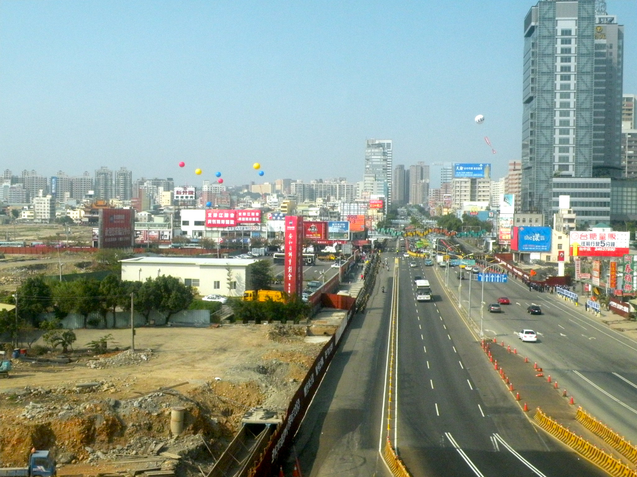 Taichung Harbor Rd., Taichung, Taiwan.